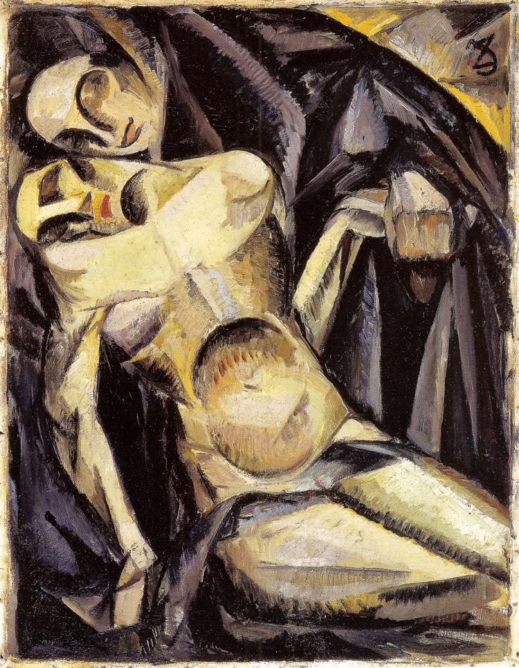 Song